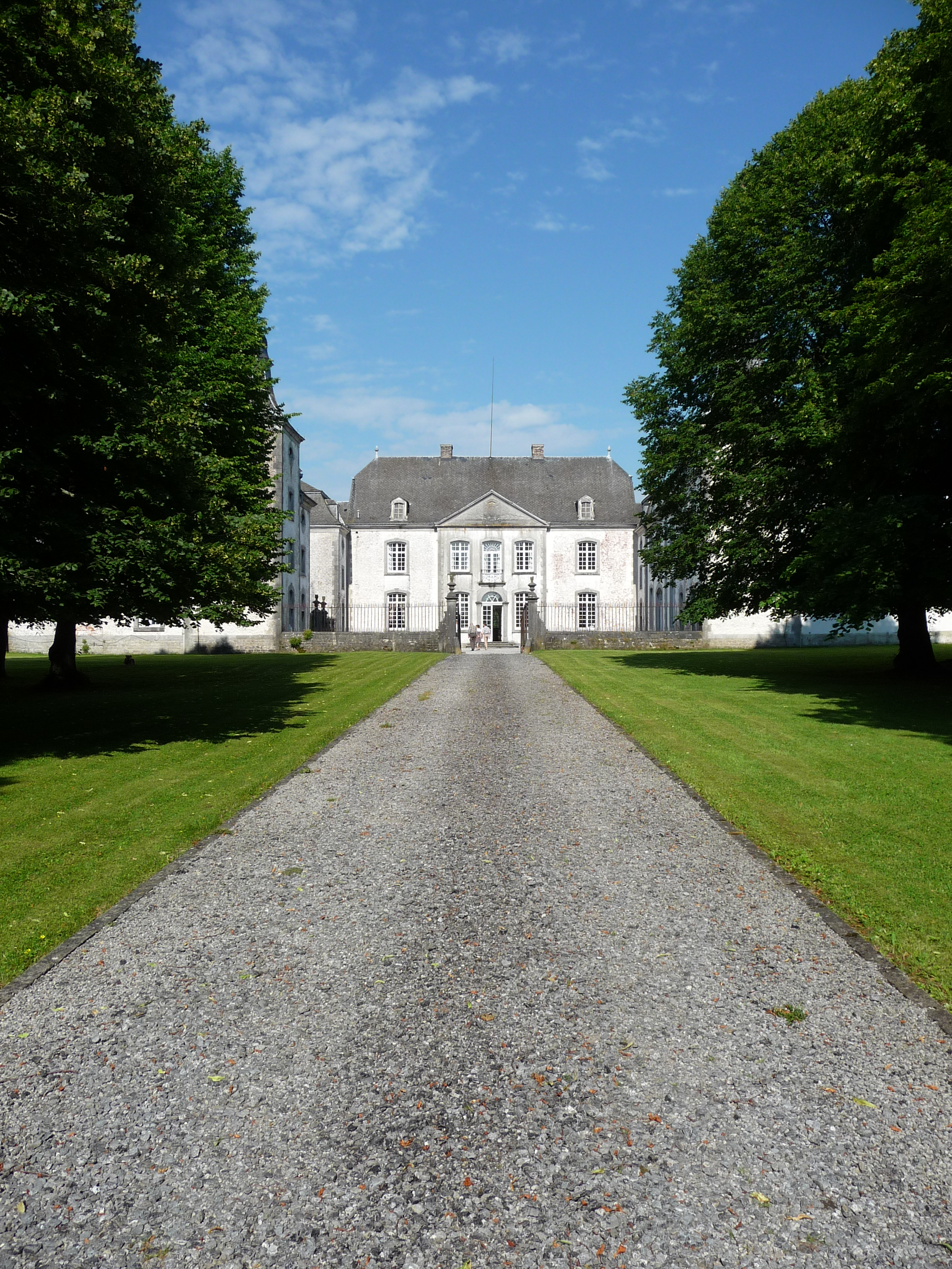 Deulin Castle, Fronville, Belgium : built in the 18th century in the village of the same name.